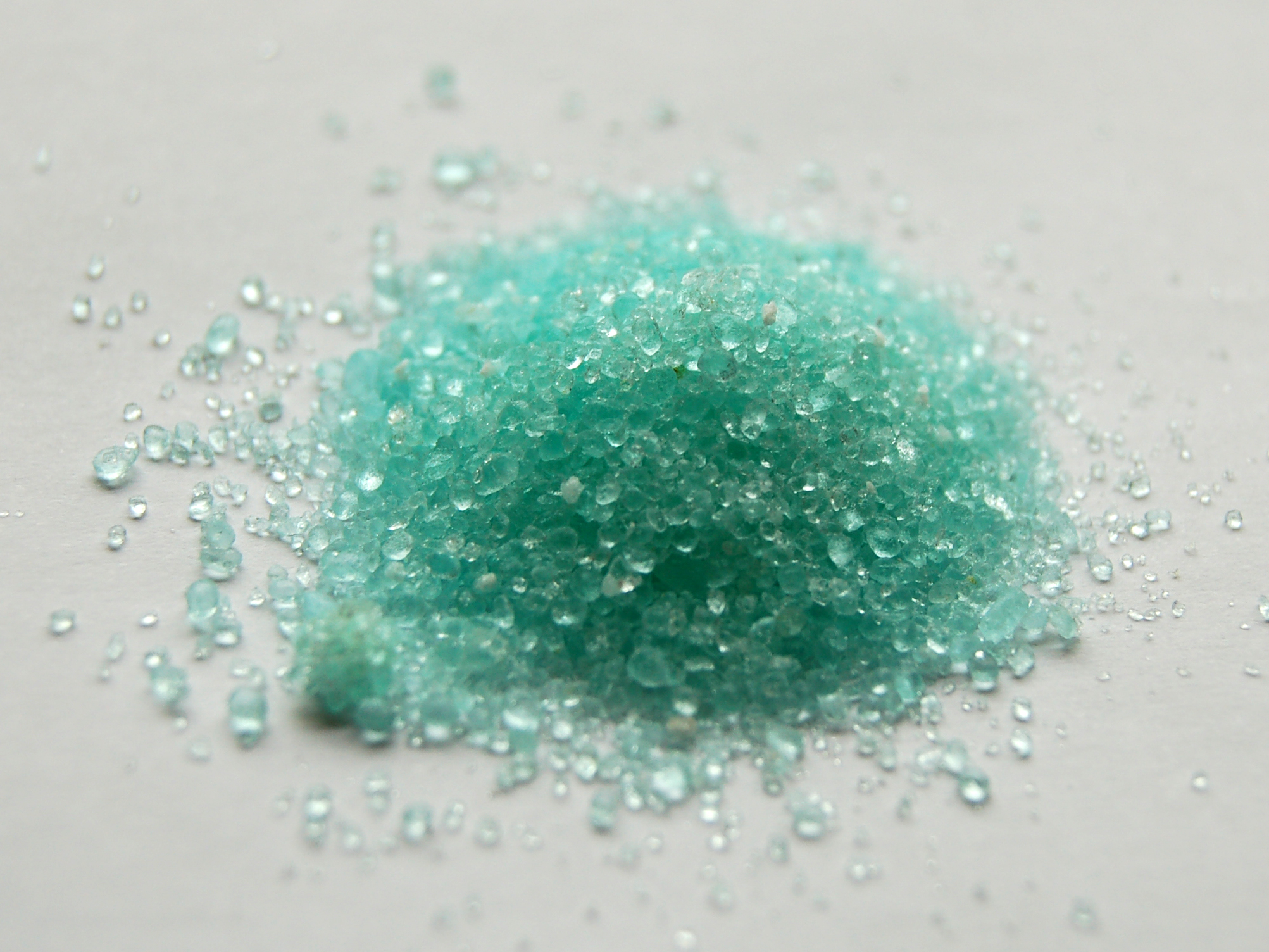 Iron(II) sulfateì heptahydrate sample